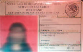 Specimen of the laminated Mexican CID card (low-security) (front side) A.K.A. Matricula Consular